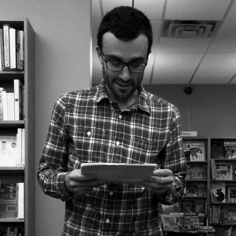 Anthony Opal reading at City Lit Books, Chicago.